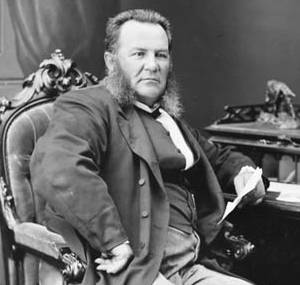 Dr. Luc-Hyacinthe Masson, M.P. (Soulanges) b. Aug. 15, 1811 - d. Oct. 17, 1880